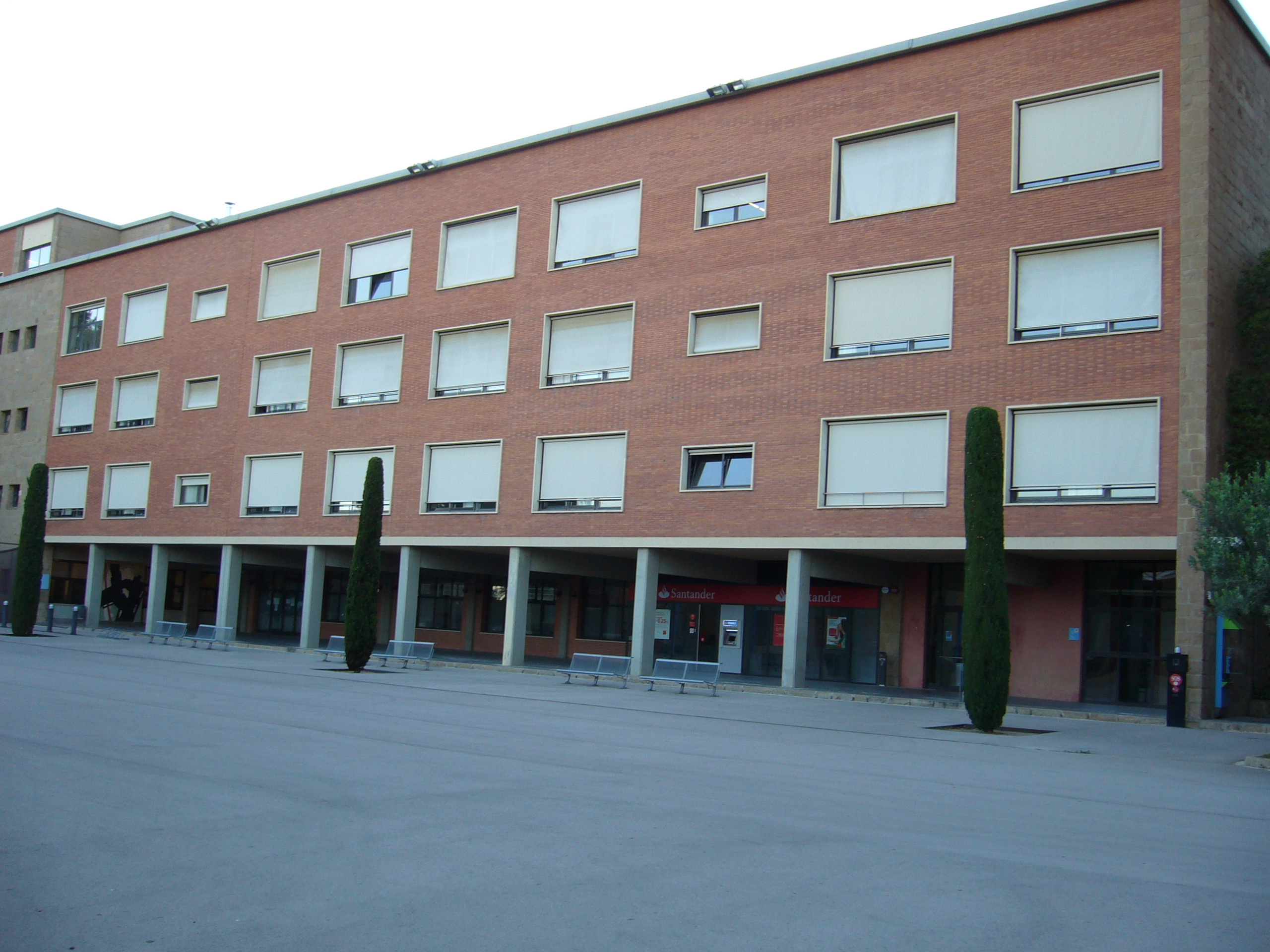 School of Psichology, University of Barcelona